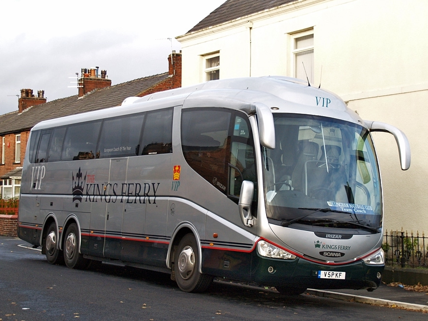 The Kings Ferry Limited V5P FK, a Scania/Irizar PB 6x2 coach with C34Ft body on Horne Street in Bury while acting as the Gillingham football club team coach.